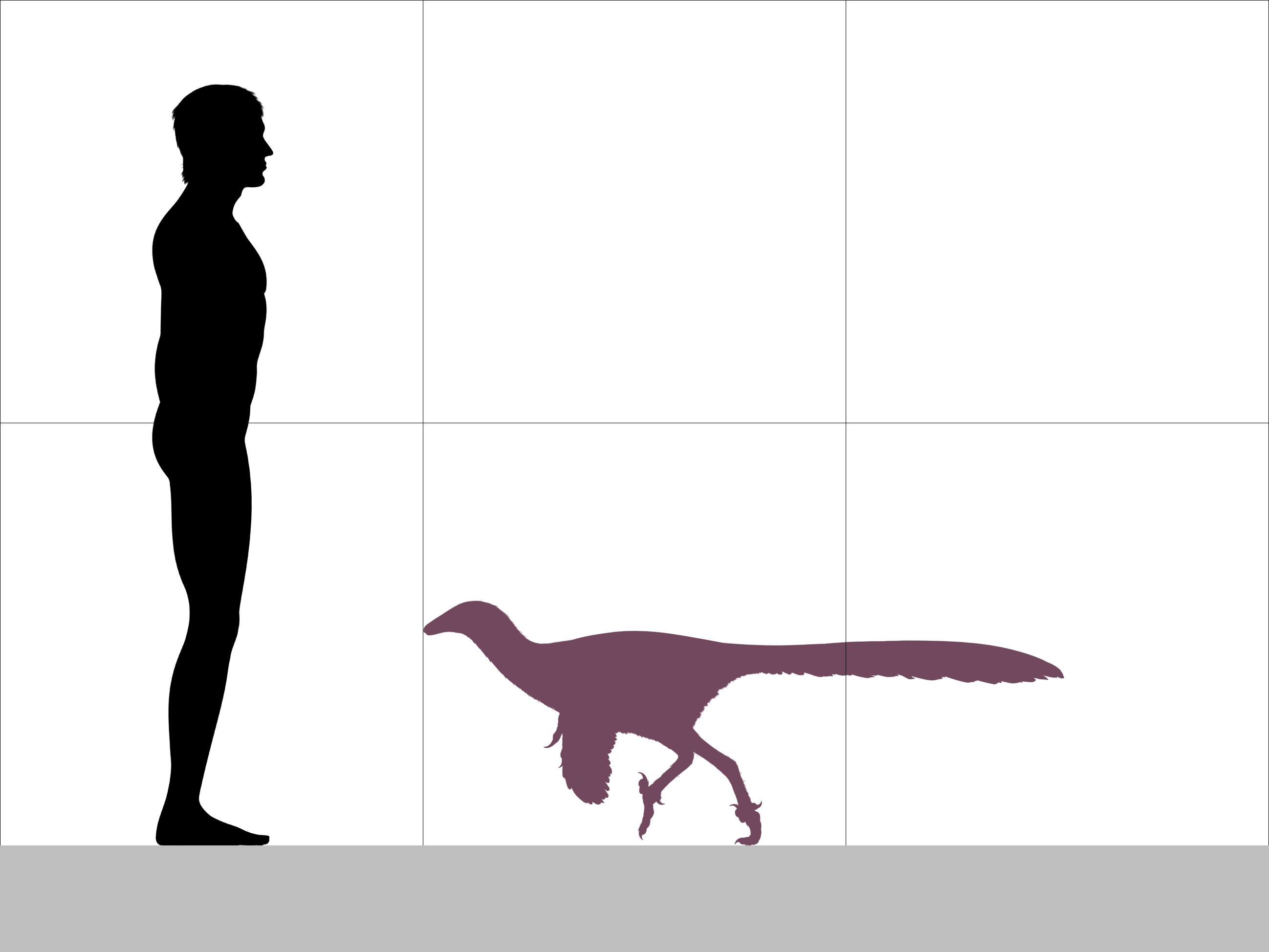 Size chart comparing the troodontid Geminiraptor and a 1.8 m tall man.[1] Geminiraptor has been estimated at possible 1.5 m (4.9 ft) by Thomas Holtz.[2]